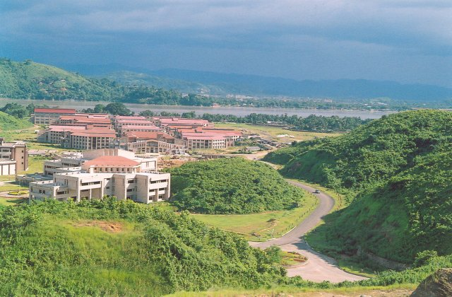 Scenic Beauty of IIT Guwahati